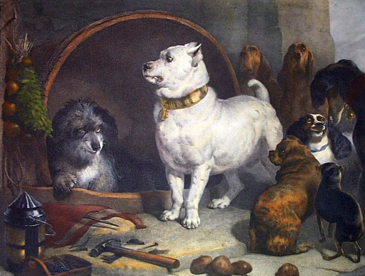 Original engraving on cotton rag paper, hand-watercolored. Engraved by Thomas Landseer after the picture Alexander and Diogenes by Sir Edwin H Landseer. Size 27 x 31 inches. (approx 69 x 79 cms).